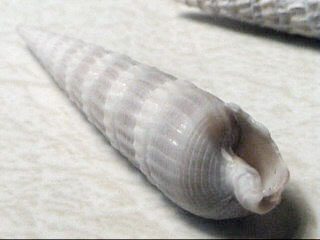 Eastern auger Terebra dislocata (Say) (2 1/4 inches) Long, pointed spire. Whorls not concave. Prominent spiral cord at top of each whorl that winds around 20 to 25 low axial ribs. Smaller spiral cords between axial ribs. Canal at bottom of aperture. Thin operculum. Source: NC Sea Grant and Atlantic Auger